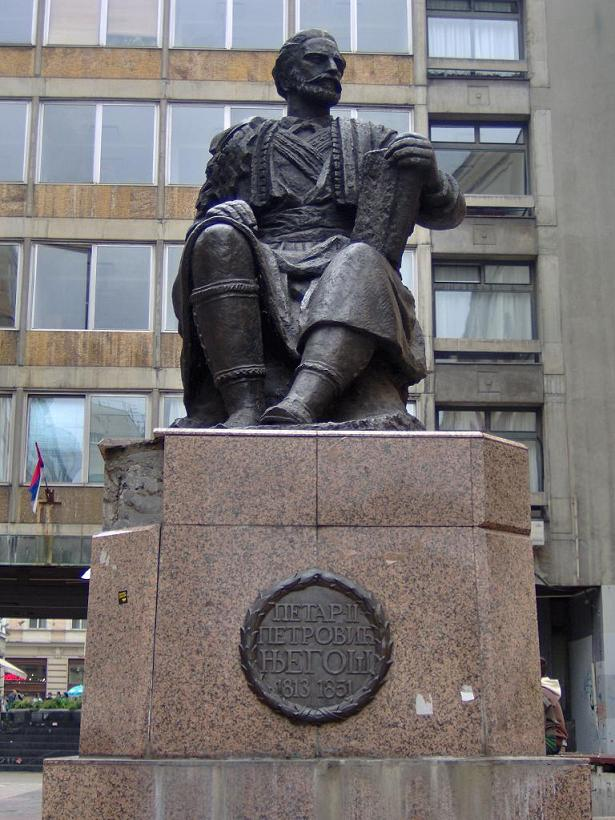 Statue of Petar Petrovic Njegos in Belgrade